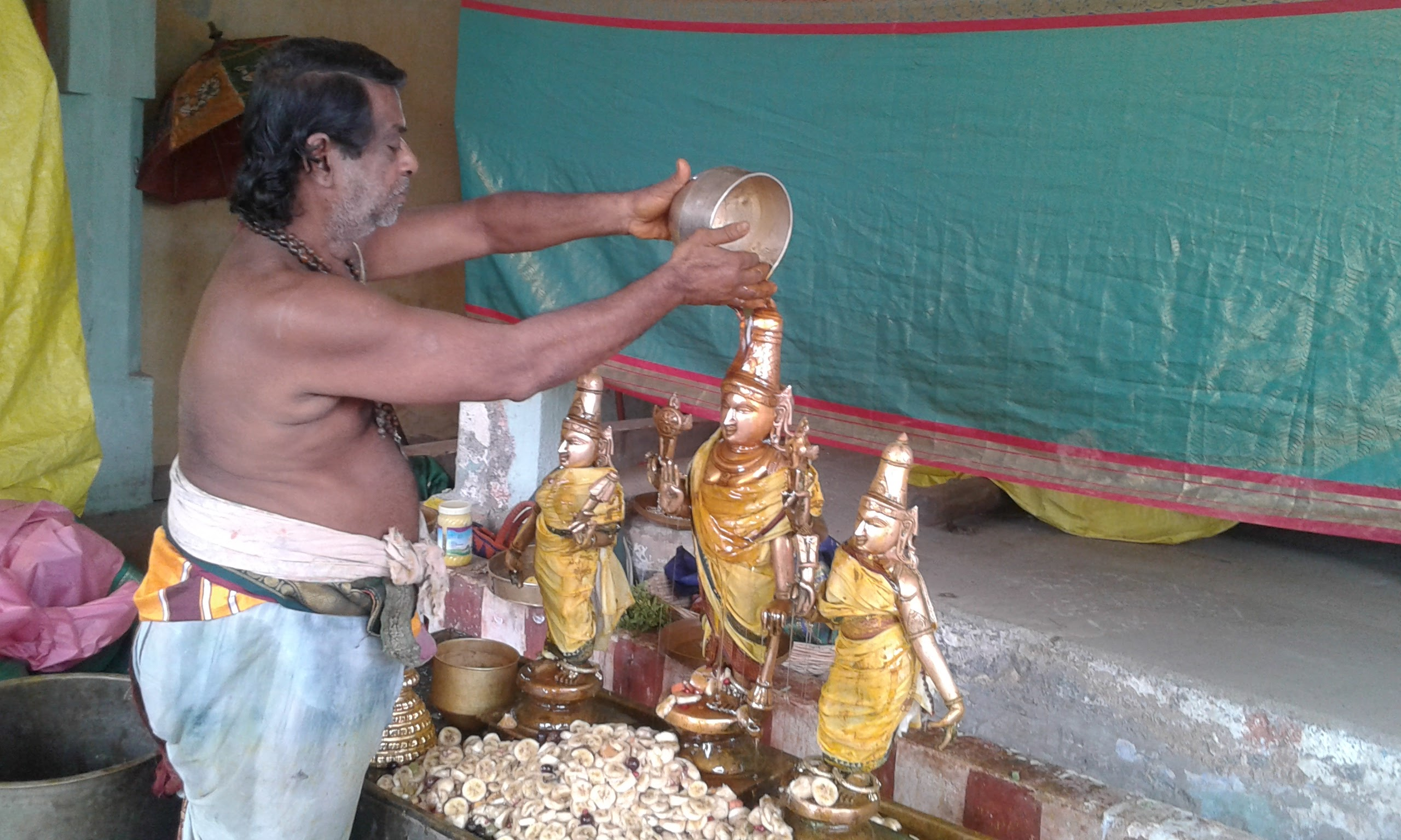 thirumanjanam panchamirtham for lakshmi narashimar